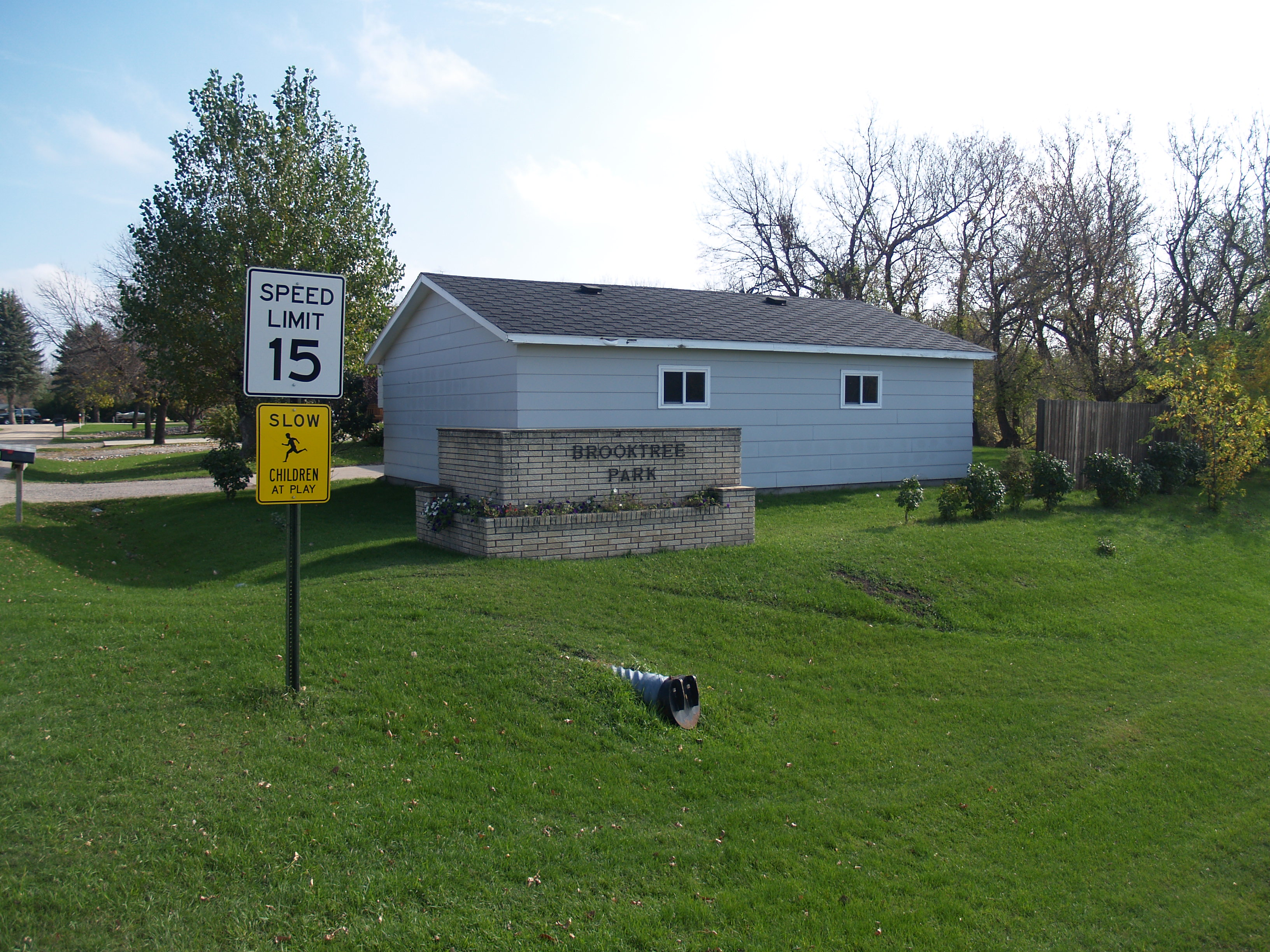 Entering Brooktree Park, North Dakota